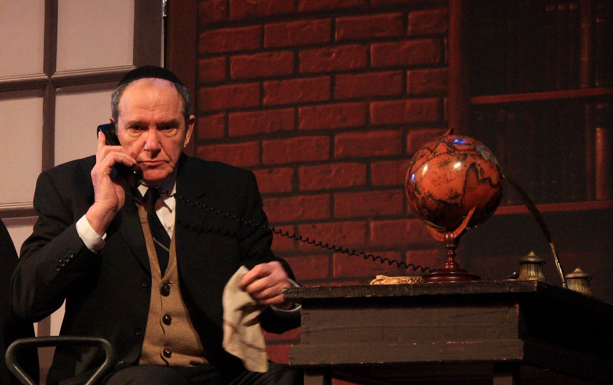 Vitorgan E. G.